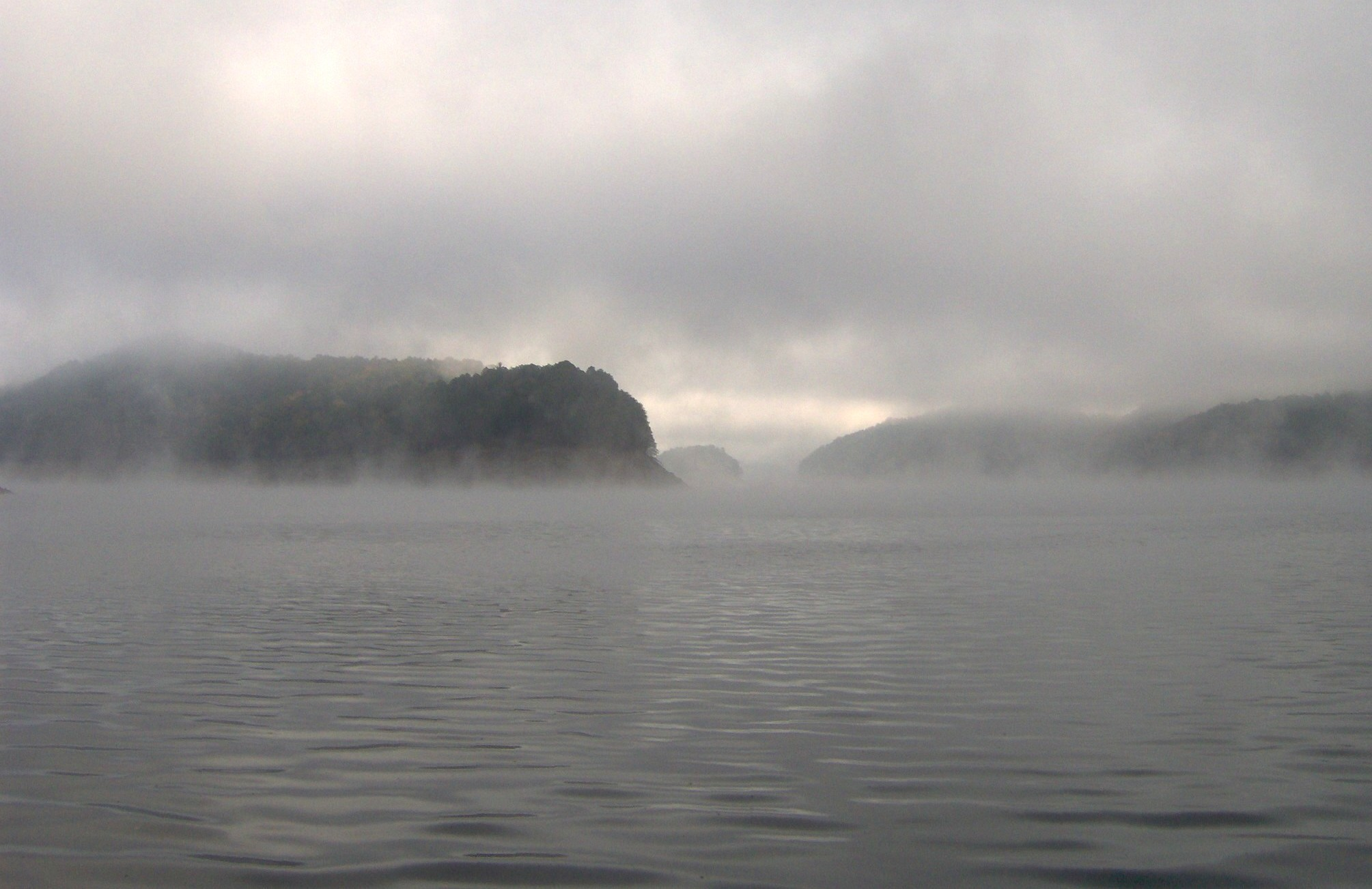 Fontana Lake, an impoundment of the Little Tennessee River, in Swain County, North Carolina, in the southeastern United States. The lake forms the boundary between the Great Smoky Mountains and Unicoi Mountains.